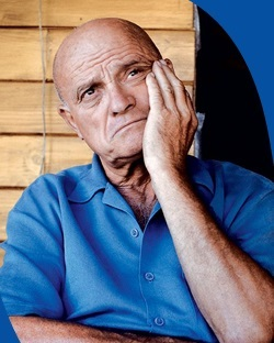 Photo of Justin Capra in 2011